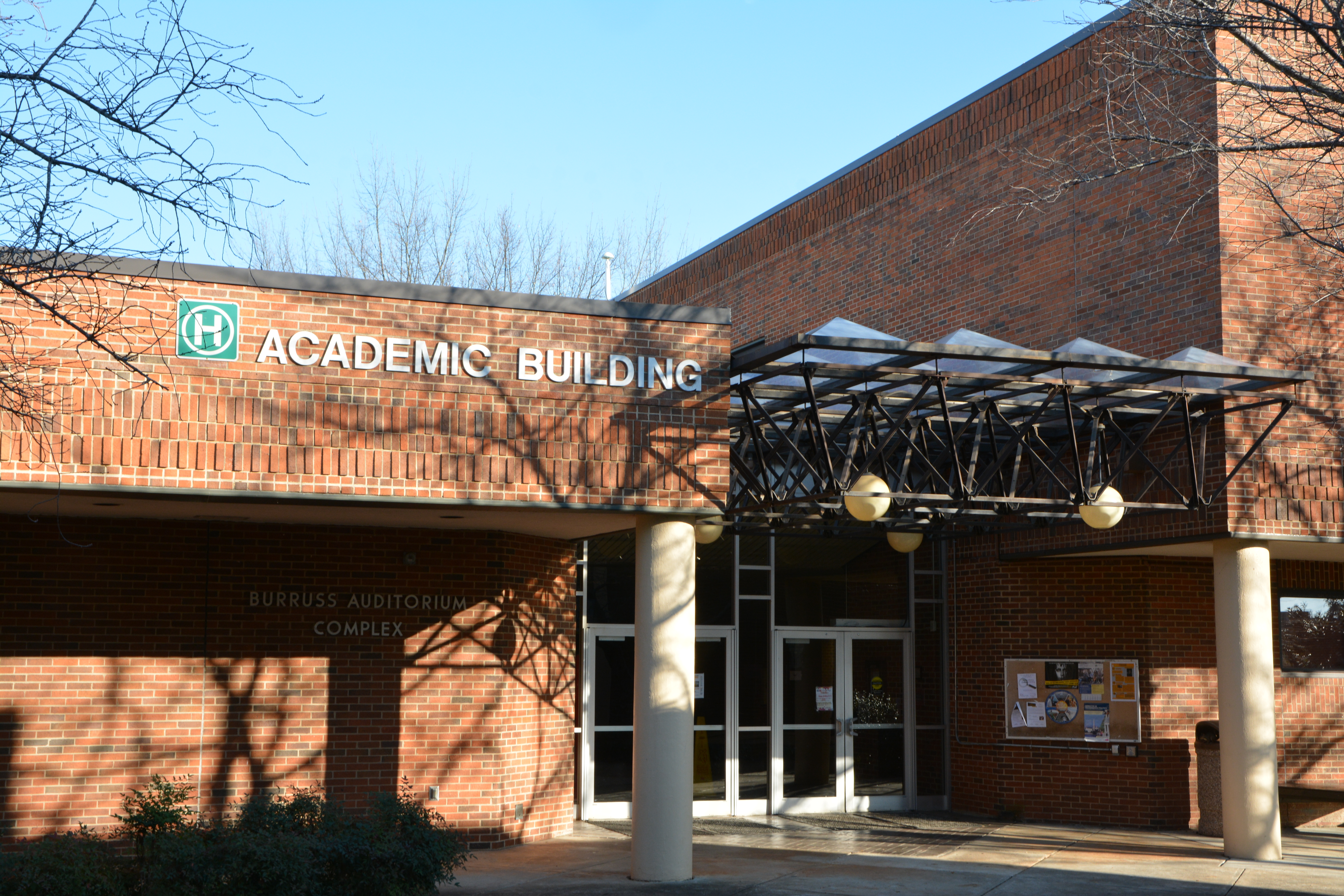 Kennesaw State University, Marietta Campus, Academic Building